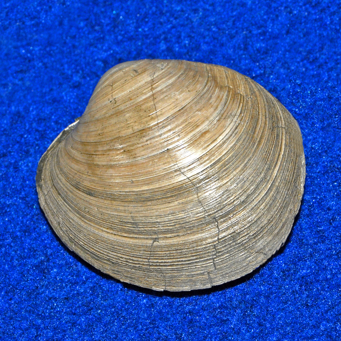 Fossil valve of Pelecyora brocchii from Pliocene of Italy, on display at the Museo Paleontologico, Asti